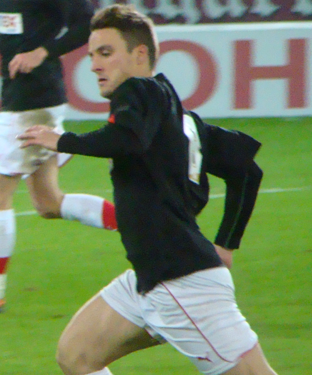 Sam Saunders playing for Brentford's Development Squad on 28 January 2013. Other information Cropped from original.